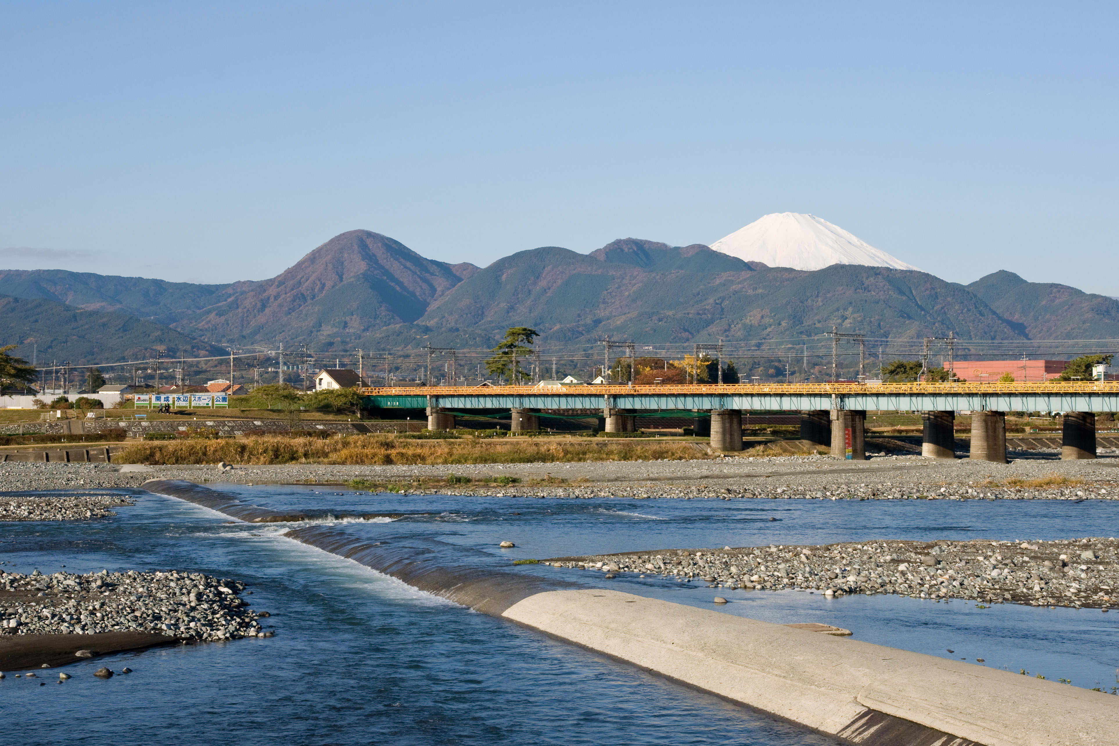 Ashigara Mountains view from near Shin-Matsuda Sta., Matsuda Town, Kanagawa Pref., Japan.